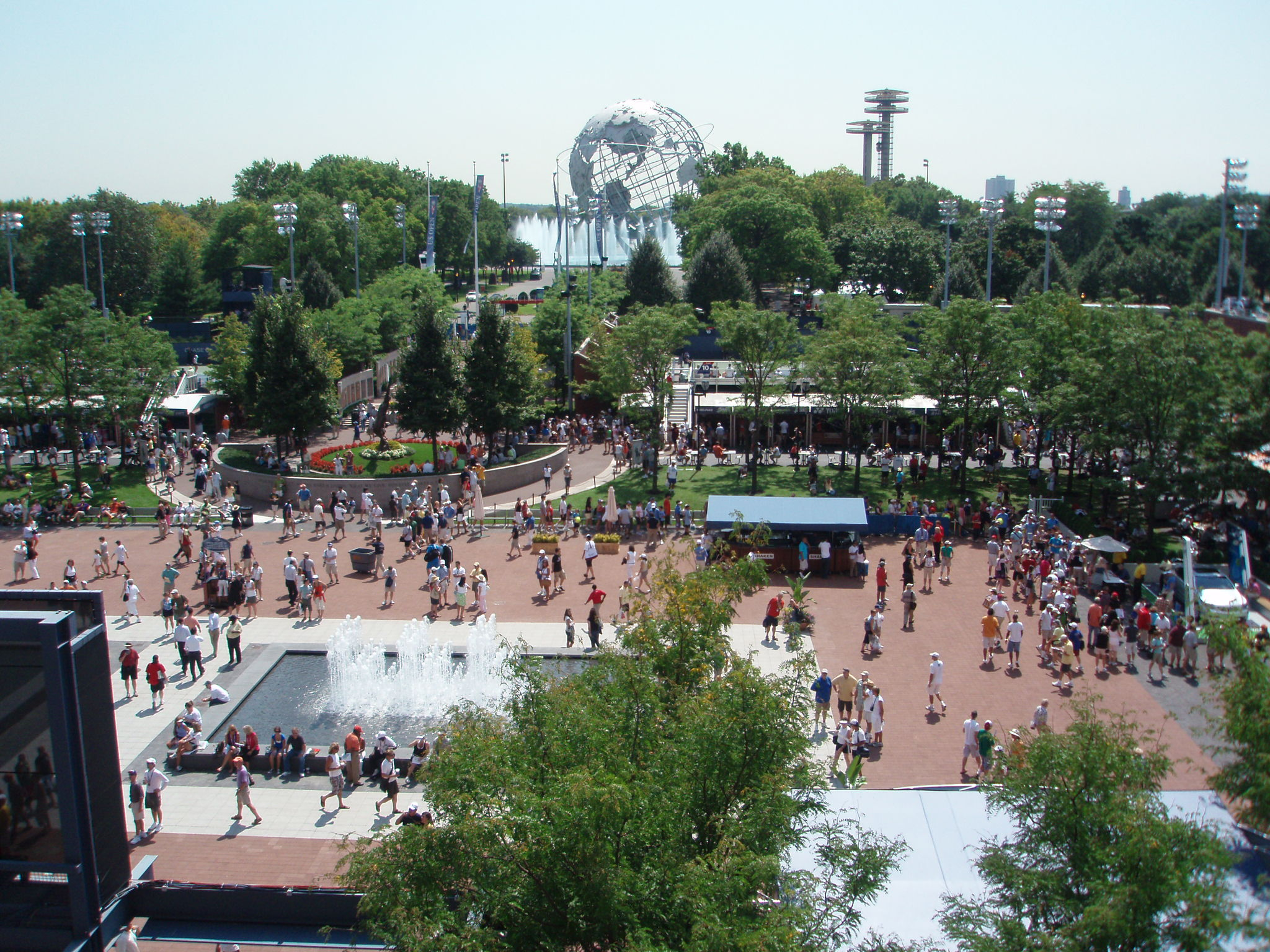 The Grounds At The 2007 US Open